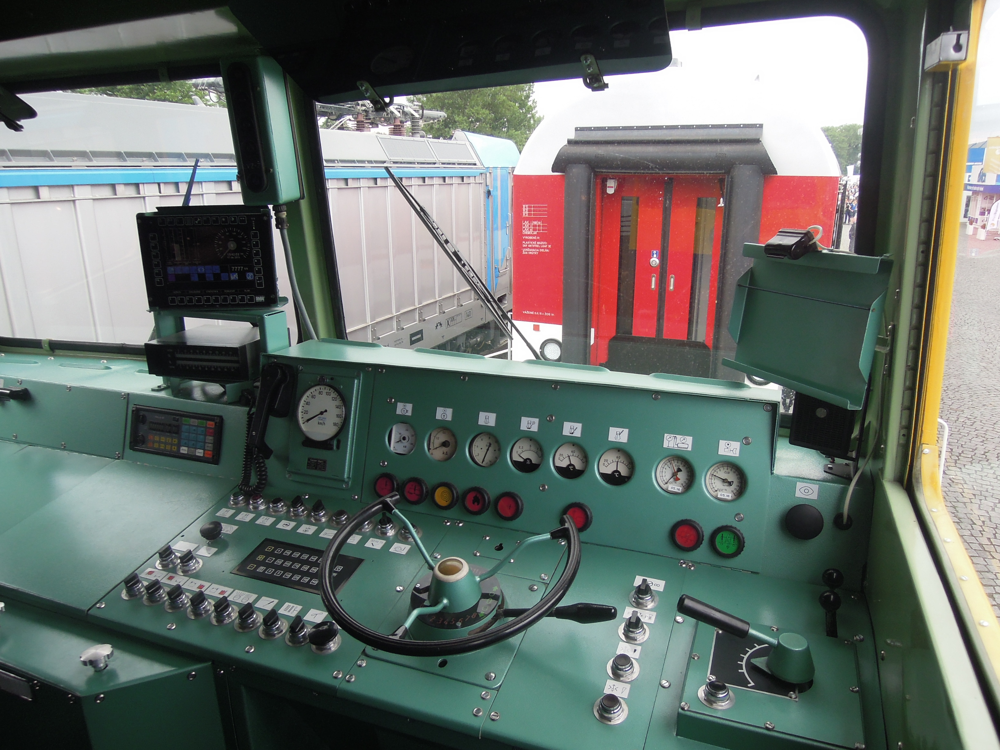 Diesel locomotive class 759 of České dráhy at the Czech Raildays 2015 trade fair in Ostrava, Czech Republic